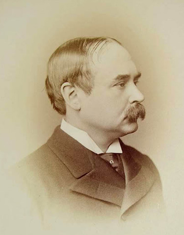 Cabinet Card of William Hurrell Mallock, by Elliot & Fry, circa 1880